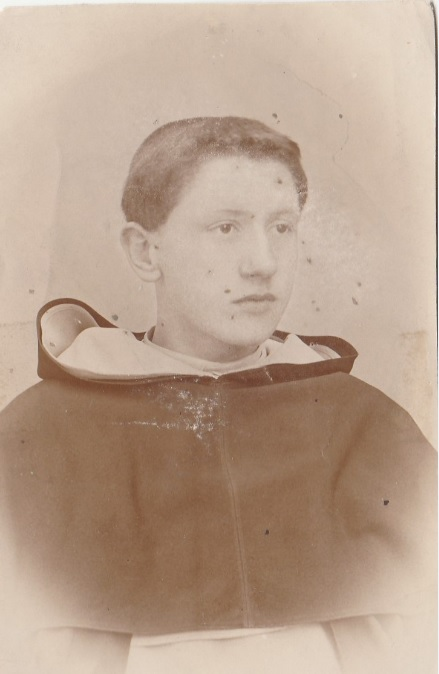 Picture of father Ceslas Marie Georges Rutten (02/1898).